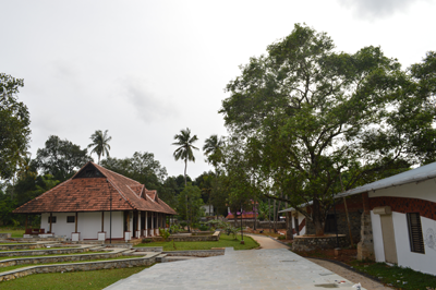 KSID Campus